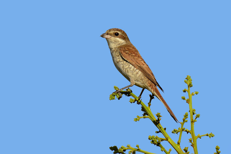 Wildlife and Plants of Israel